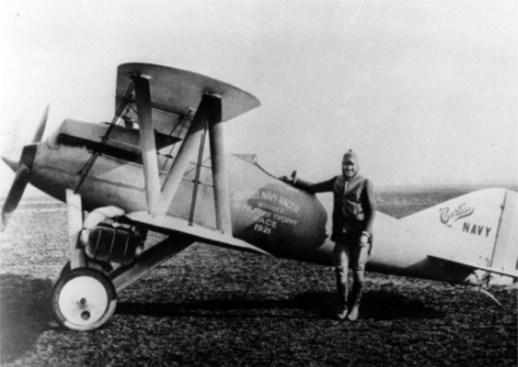 Bertrand Blanchard Acosta with the U.S. Navy Curtiss CR-1 in 1921. It won the 1921 Pulitzer Trophy race nearly two minutes ahead of its closest rival with an average speed of 283.49 km/h (176.75 mph).